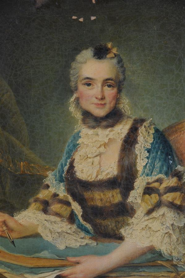 Madame Dompierre de Fontaine, Selfportrait